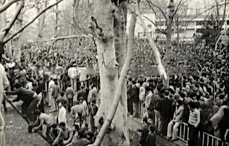 Iranian revolution in Rasht